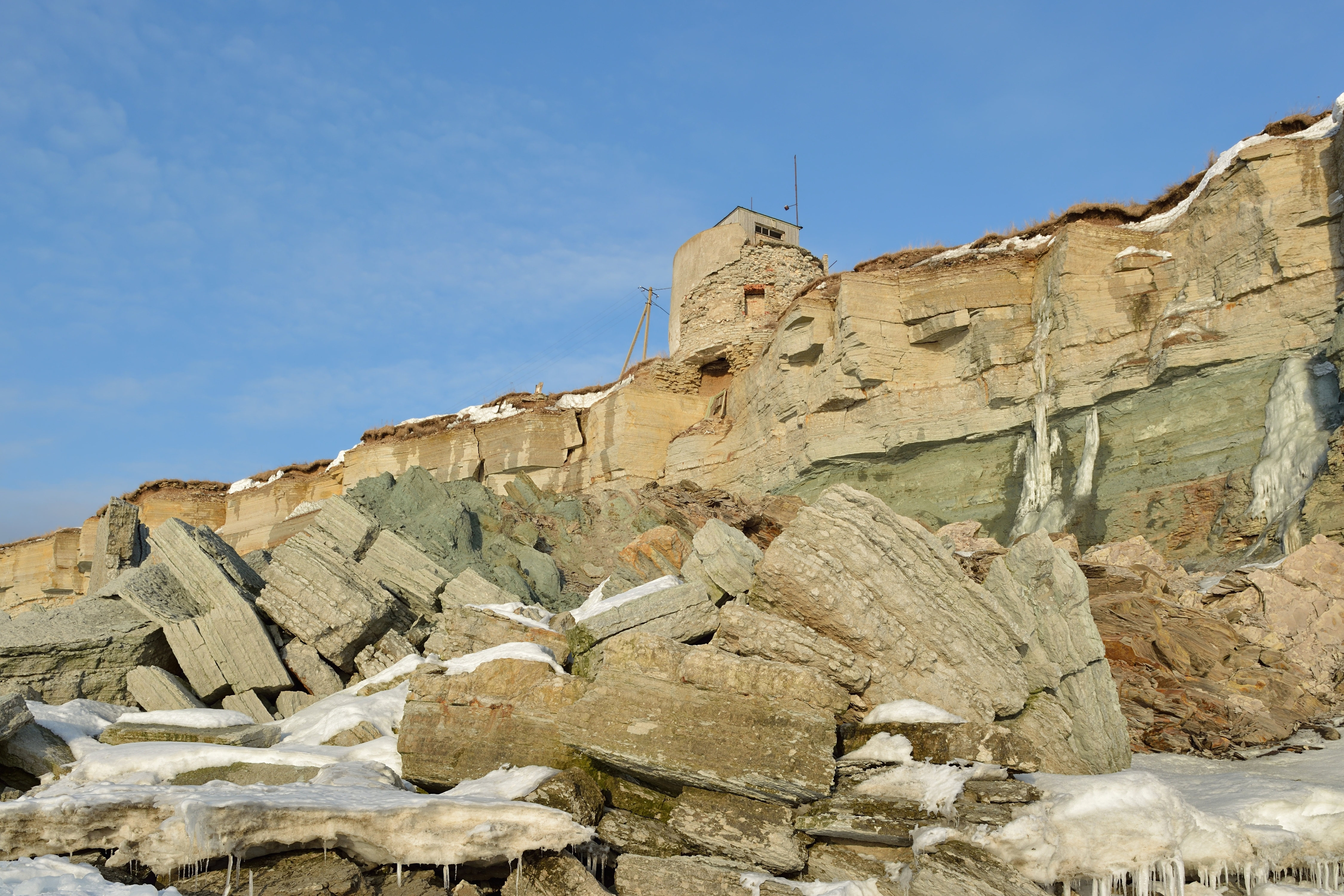 Ruins of Pakri old lighthouse, built in 1760. In 1889 a new lighthouse was built ca 80 m away from the old one, because the old lighthouse ended up too close to the edge due to natural collapse of the limestone cliff. The old tower was later partly demolished and used as a kerosene store.